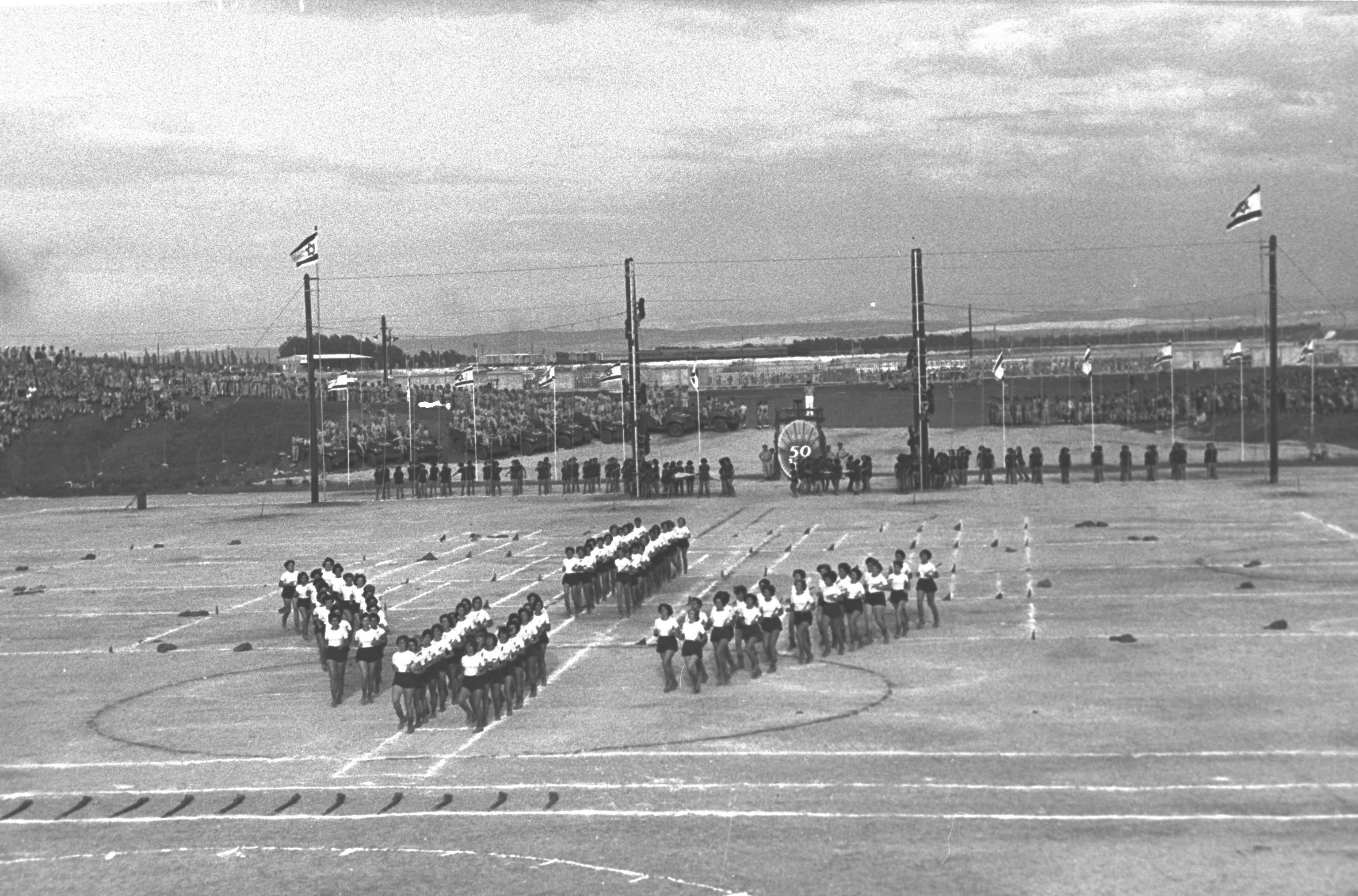 IDF WOMEN SOLDIERS TAKING PART IN THE CLOSING CEREMONY OF THE 3RD "MACCABIA GAMES", HELD AT THE RAMAT GAN STADIUM.